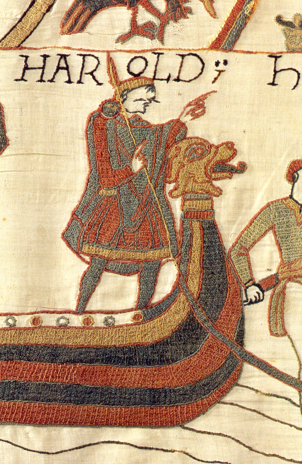 fragment of the bayeux tapestry showing harold as he comes to normandy to inform william he is the sucesor of king eduard.